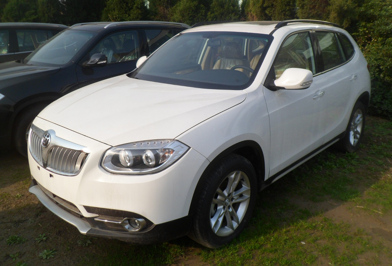 Brilliance V5 photographed in Shanghai, China.